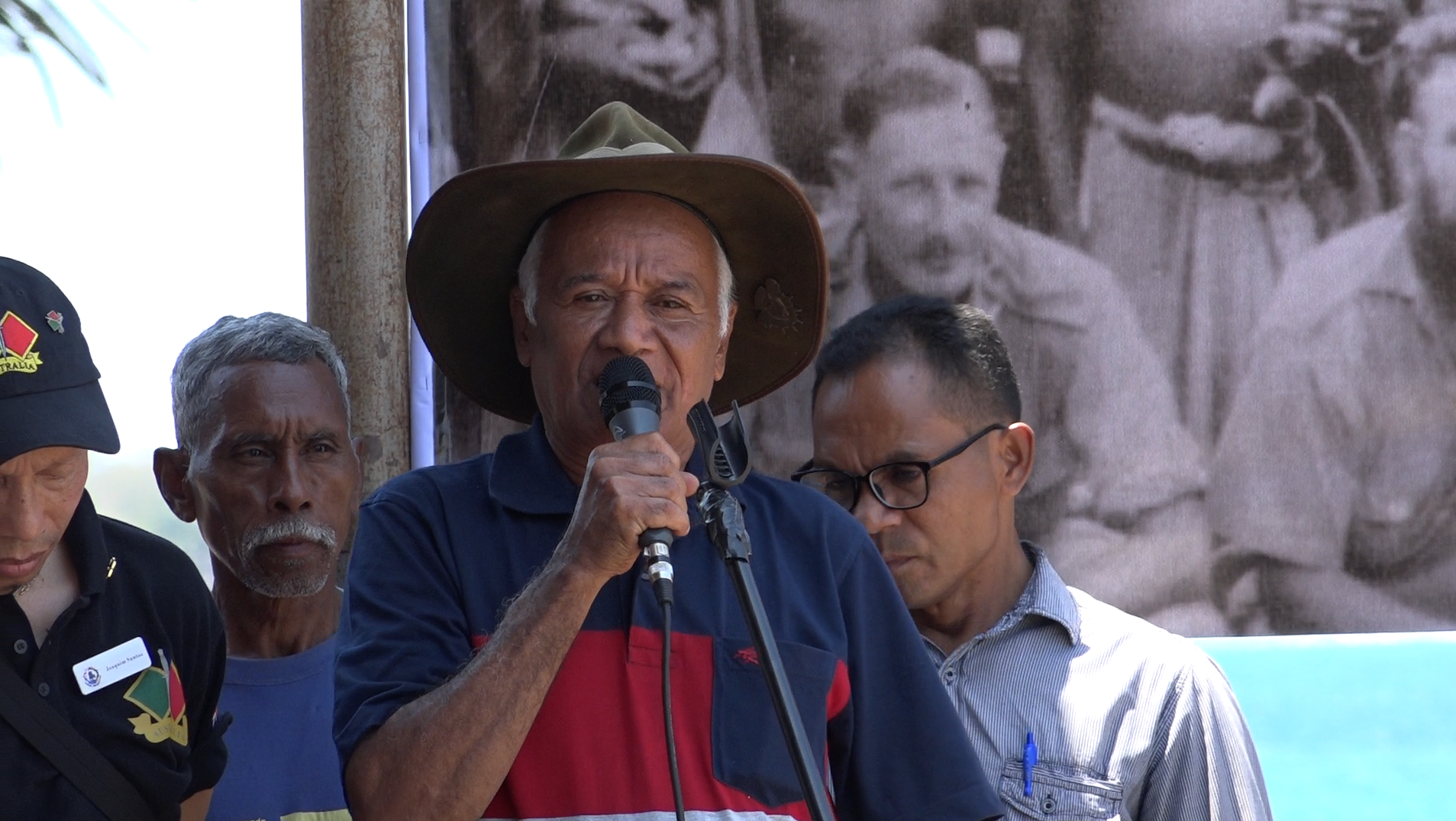 Riak Leman at Betano beach with Timor Awakening group 7, giving a speech about the history of WW2 Commandos. September 13th 2018.